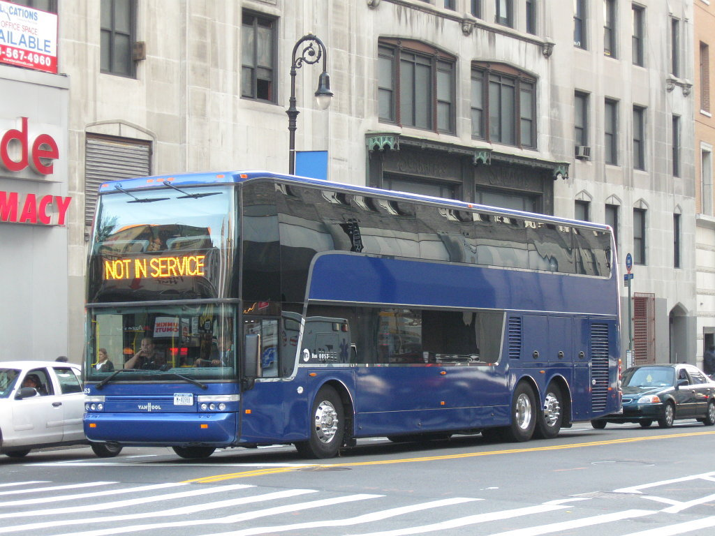 A Van Hool TD925 Astromega demo bus operates through Brooklyn, New York, having just been exhibited at the 2008 NYC Transit BusFest. The bus demoed in Staten Island, NY from September 11, 2008 until October 8, 2008.